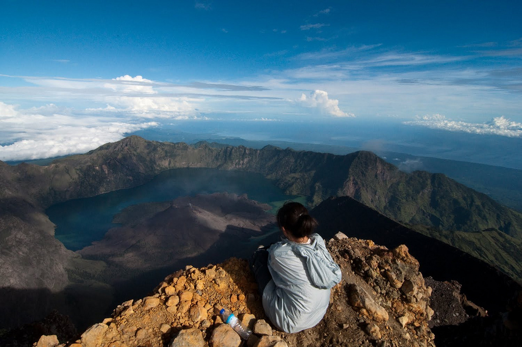 Climbing Journal Mount Rinjani